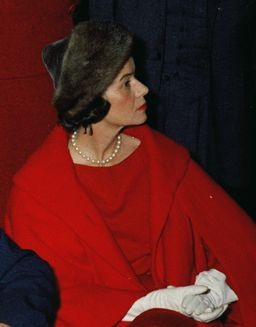 Susan Mary Alsop, at First Lady Jacqueline Kennedy’s tea for the Special Committee for White House Paintings. Green Room, White House, Washington, D.C.